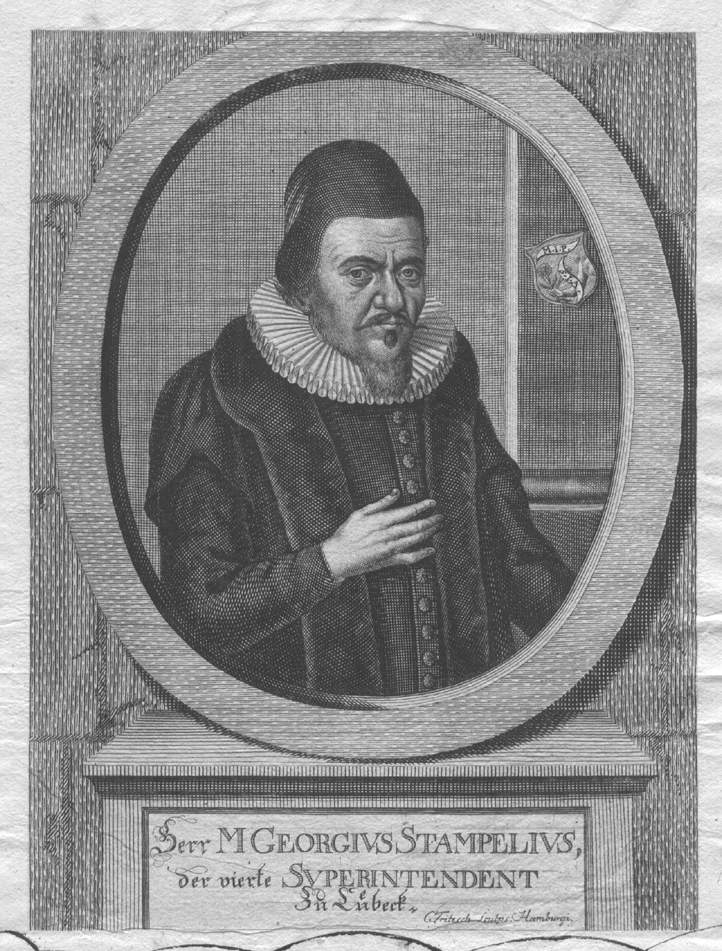 Georg Stampelius (1561-1622), copper engraving, size 185x137 mm